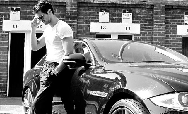 David Gandy for British GQ (2012)